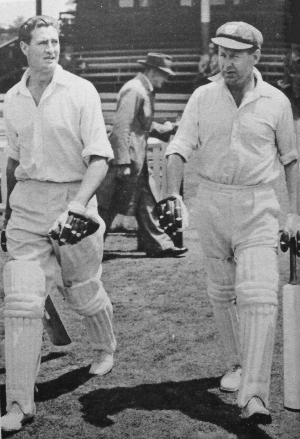 Keith Miller and Arthur Morris walk out to bat for NSW